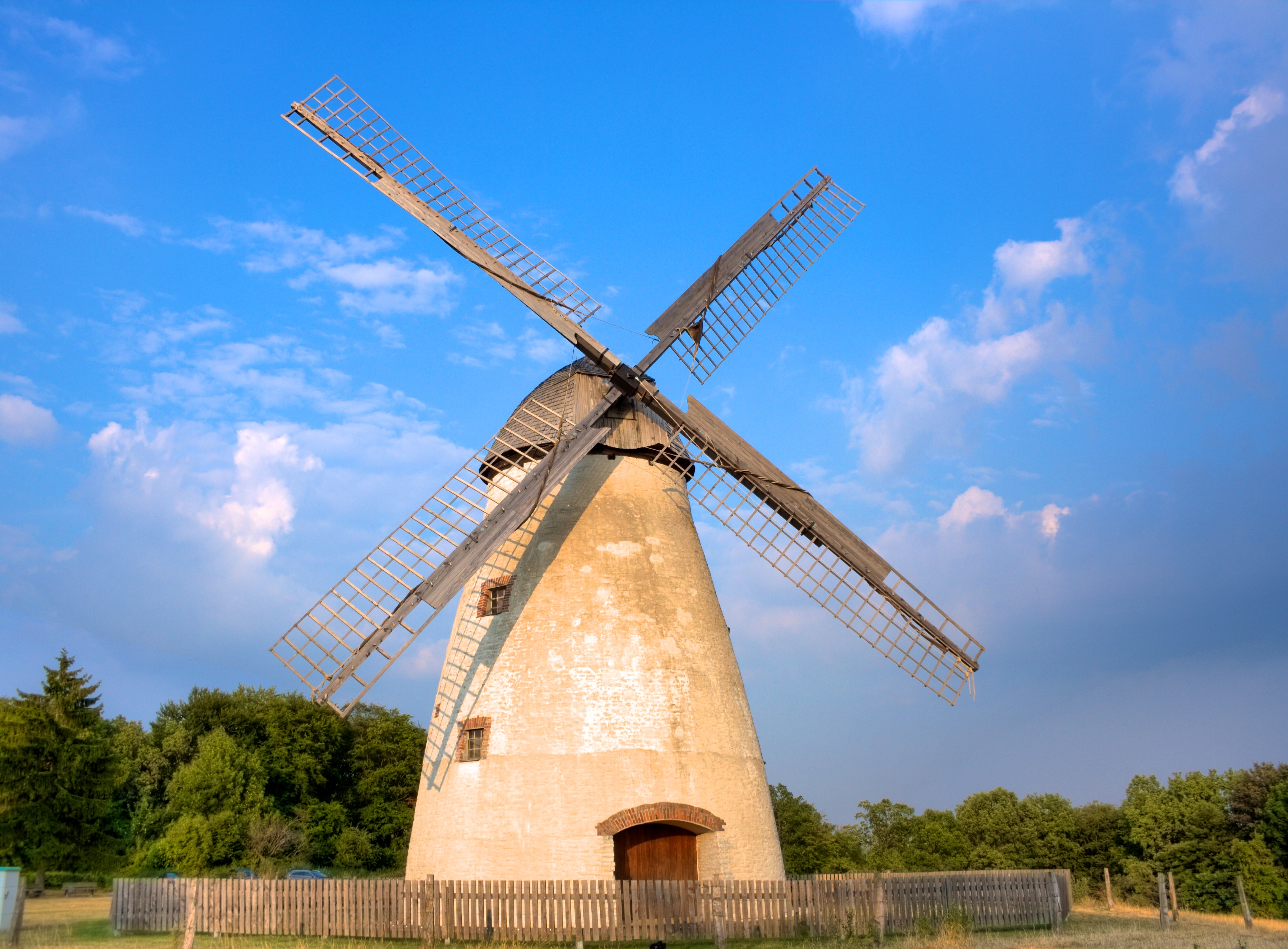 You can see a windmill in the mountains Beckum.